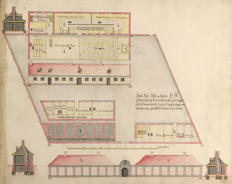 Drawing of Stokhuset (military prison) in Copenhagen (now demolished)